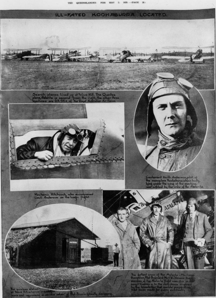 Search for the ill-fated Kookaburra aeroplane, 1929 Collage of photographs including the pilot and mechanic of the Kookaburra, crew of the Atlanta, and the wireless station at Wave Hill.